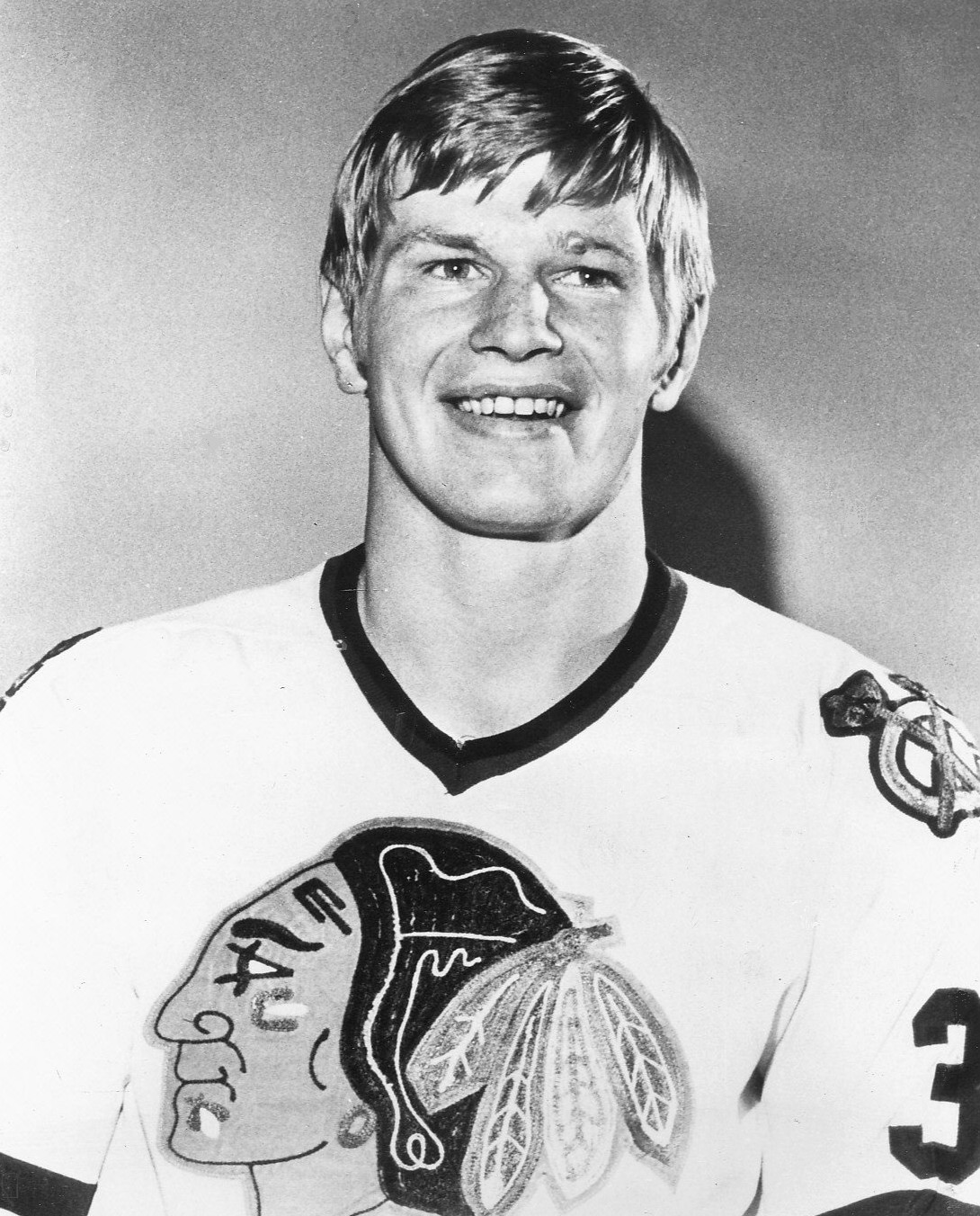 Photo of Keith Magnuson as a member of the Chicago Black Hawks.